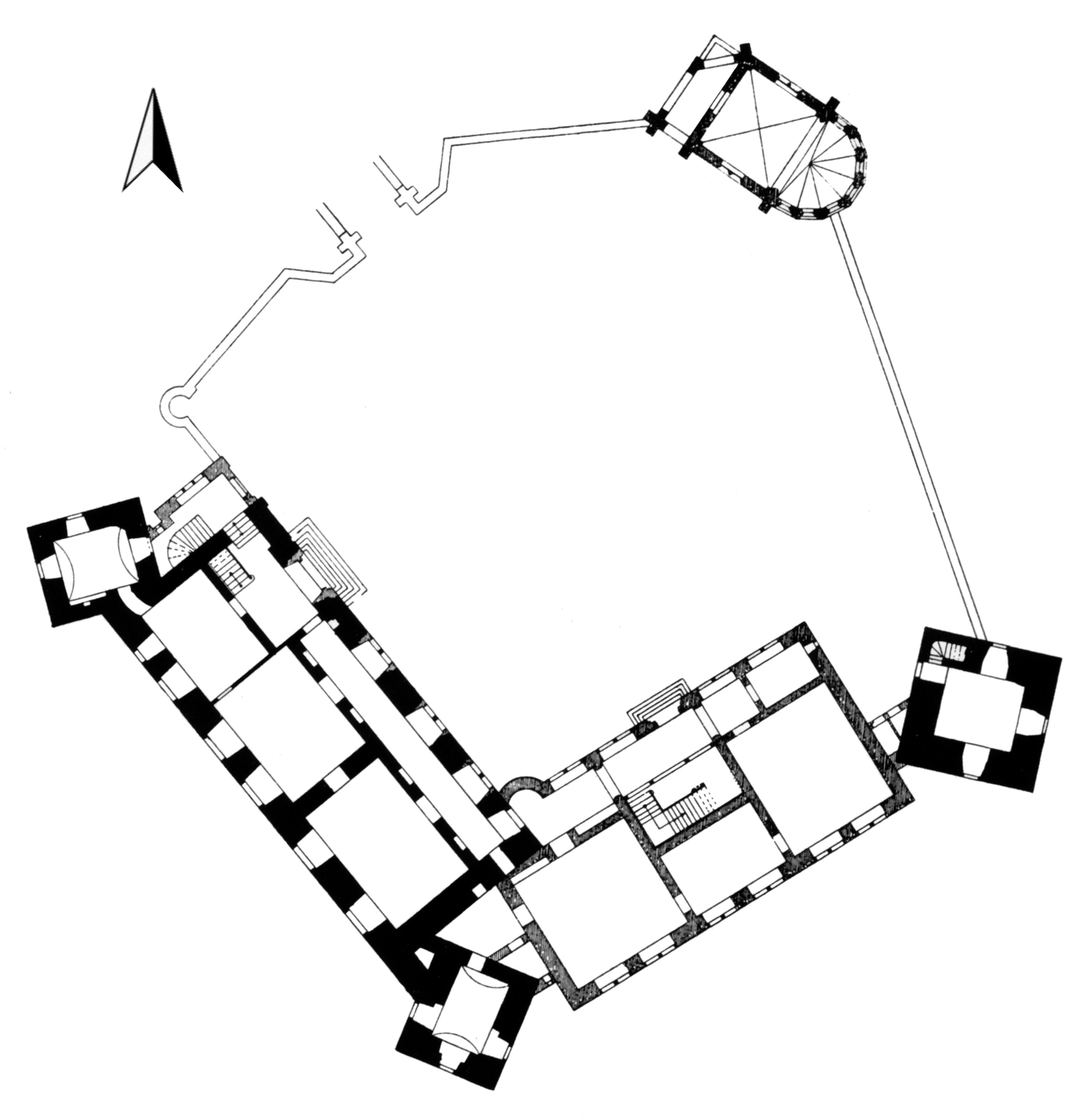 Floorplan of Schloss Elsum